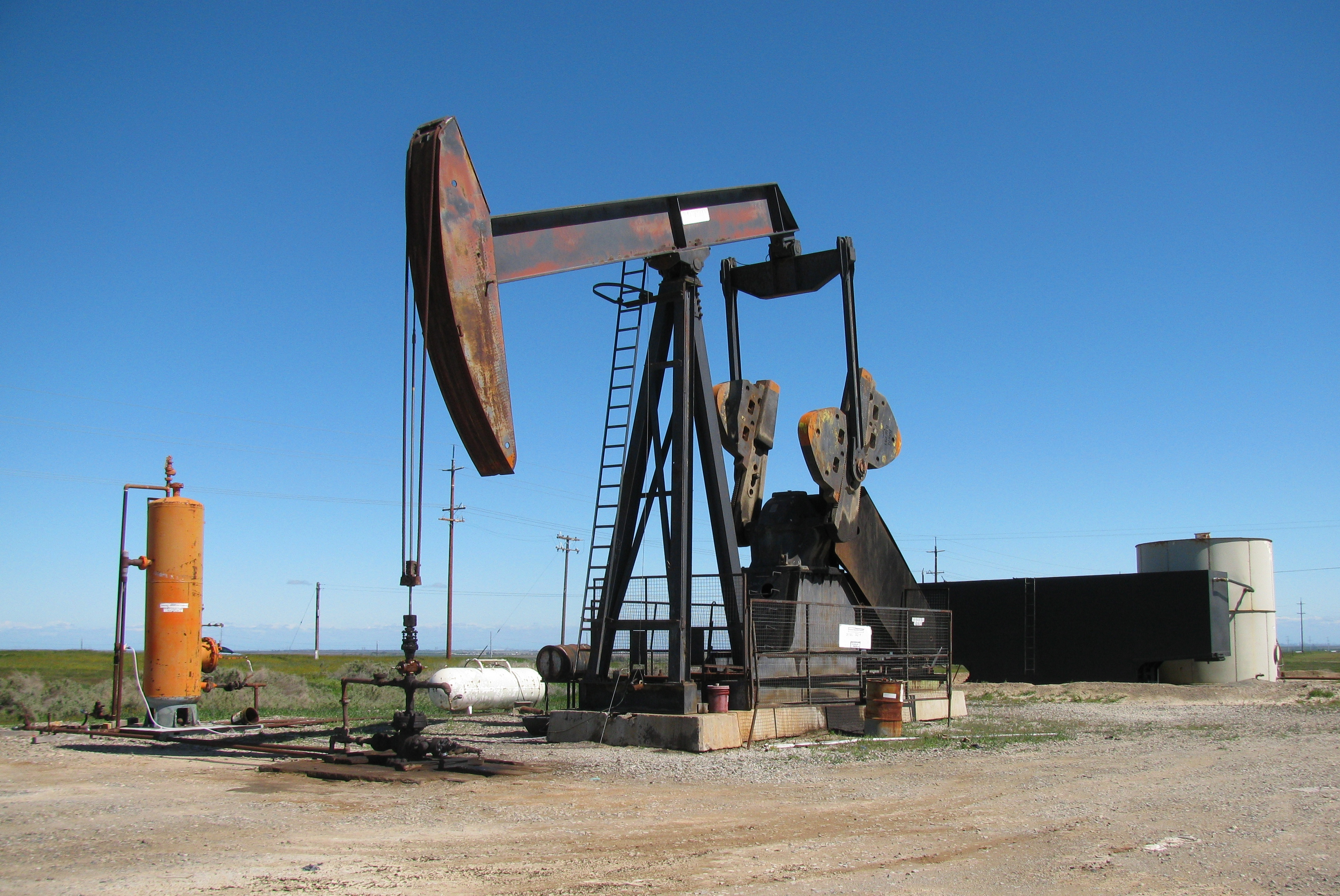 The last active well on the Guijarral Hills field; photo by self, GFDL/equiv.